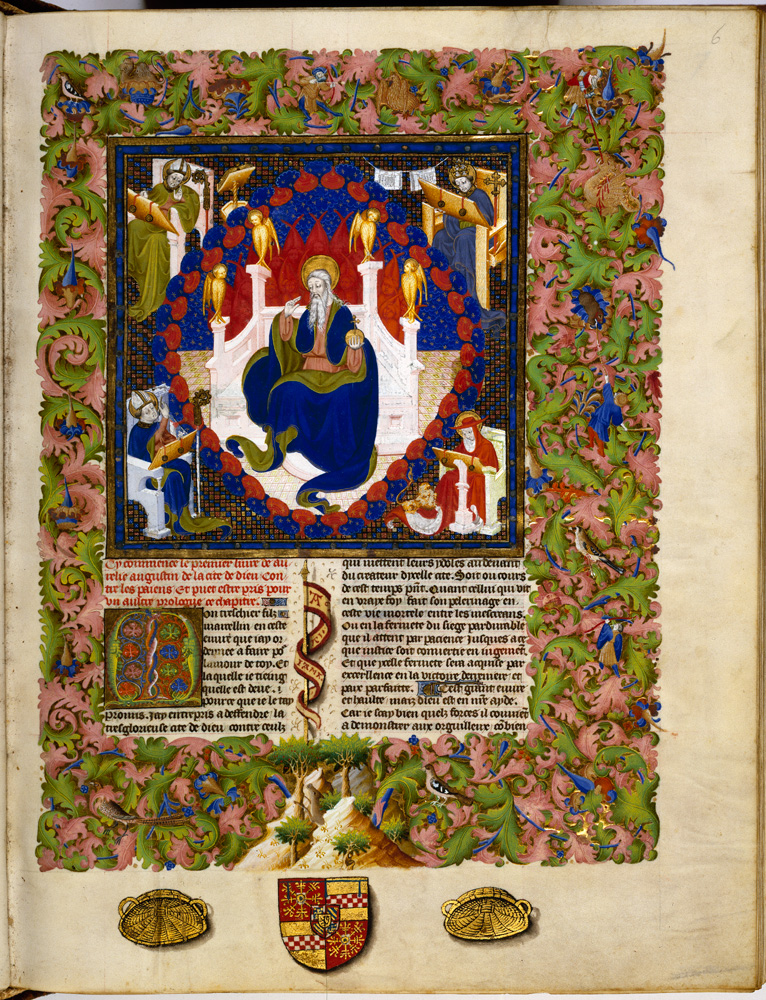 Cité de Dieu, French versions of De Civitate Dei. Came into posession of Filips van Kleef (Philippe de Clèves) around 1485. His weapon is added on the bottom of the page